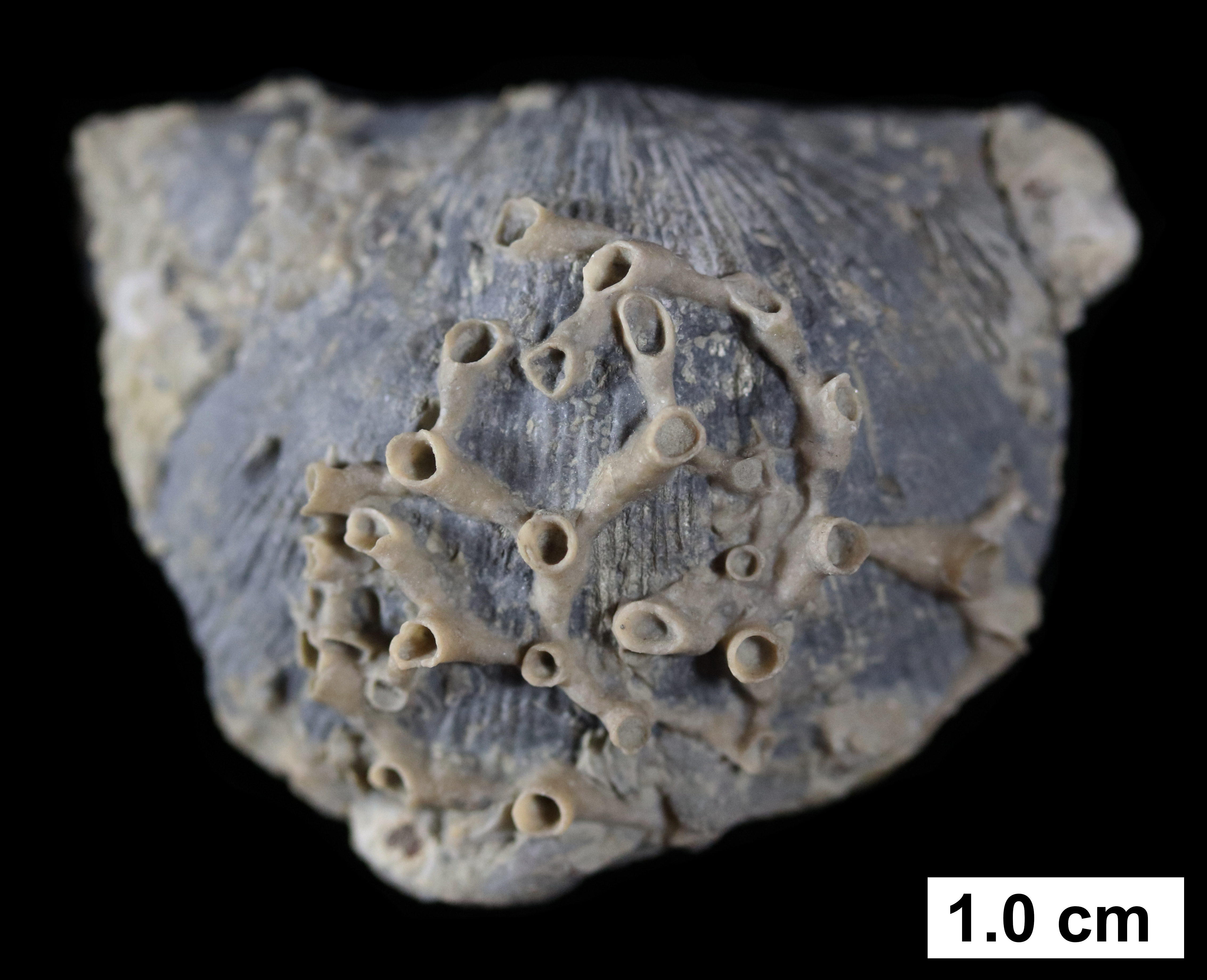 The tabulate coral Aulopora attached to the brachiopod Strophodonta; Middle Devonian; Milwaukee Formation; Lindwurm Member; Milwaukee County, Wisconsin; collected by K.C. Gass; MPM P28744A; photograph originally published in K.C. Gass, J. Kluessendorf, D.G. Mikulic, and C.E. Brett, 2019. Fossils of the Milwaukee Formation: A Diverse Middle Devonian Biota from Wisconsin, USA. Siri Scientific Press, Manchester, UK.